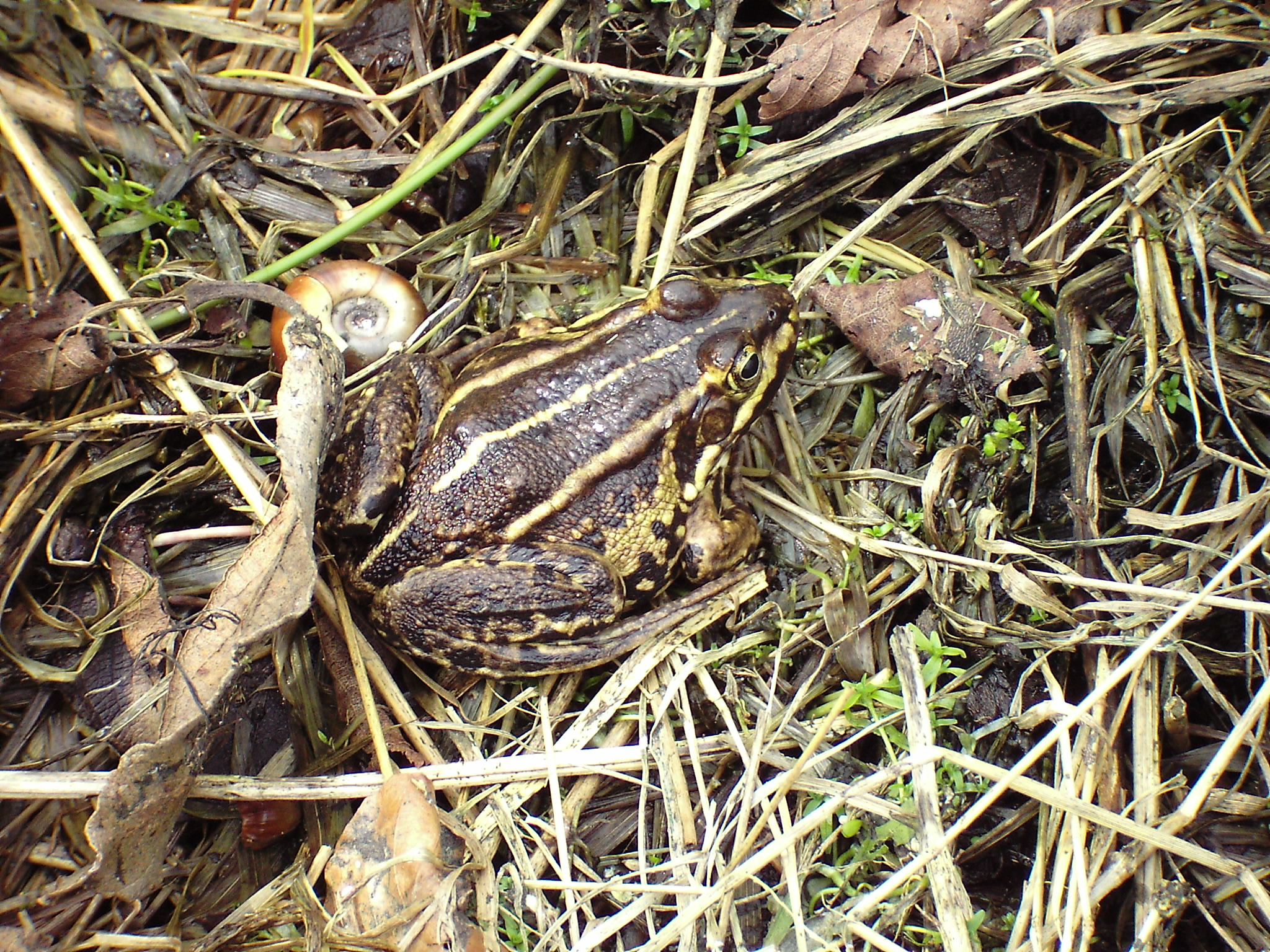 Pool frog. Uncommon brown color, previously mistaken as Rana arvalis.